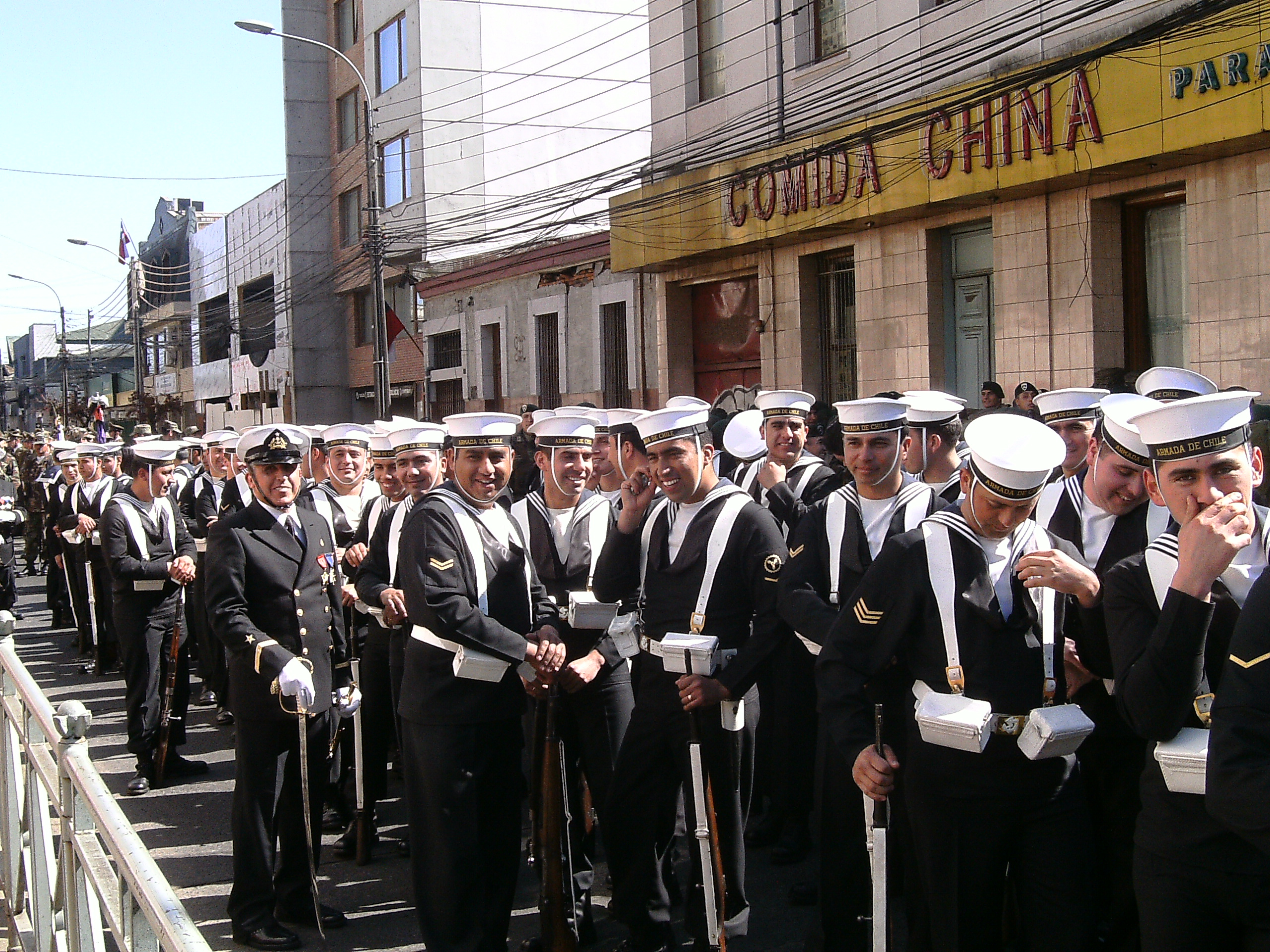 Navy Soldiers of the Chilean Navy, with their uniforms and Mauser Rifles before the Military Parade 2011 in the city of Temuco